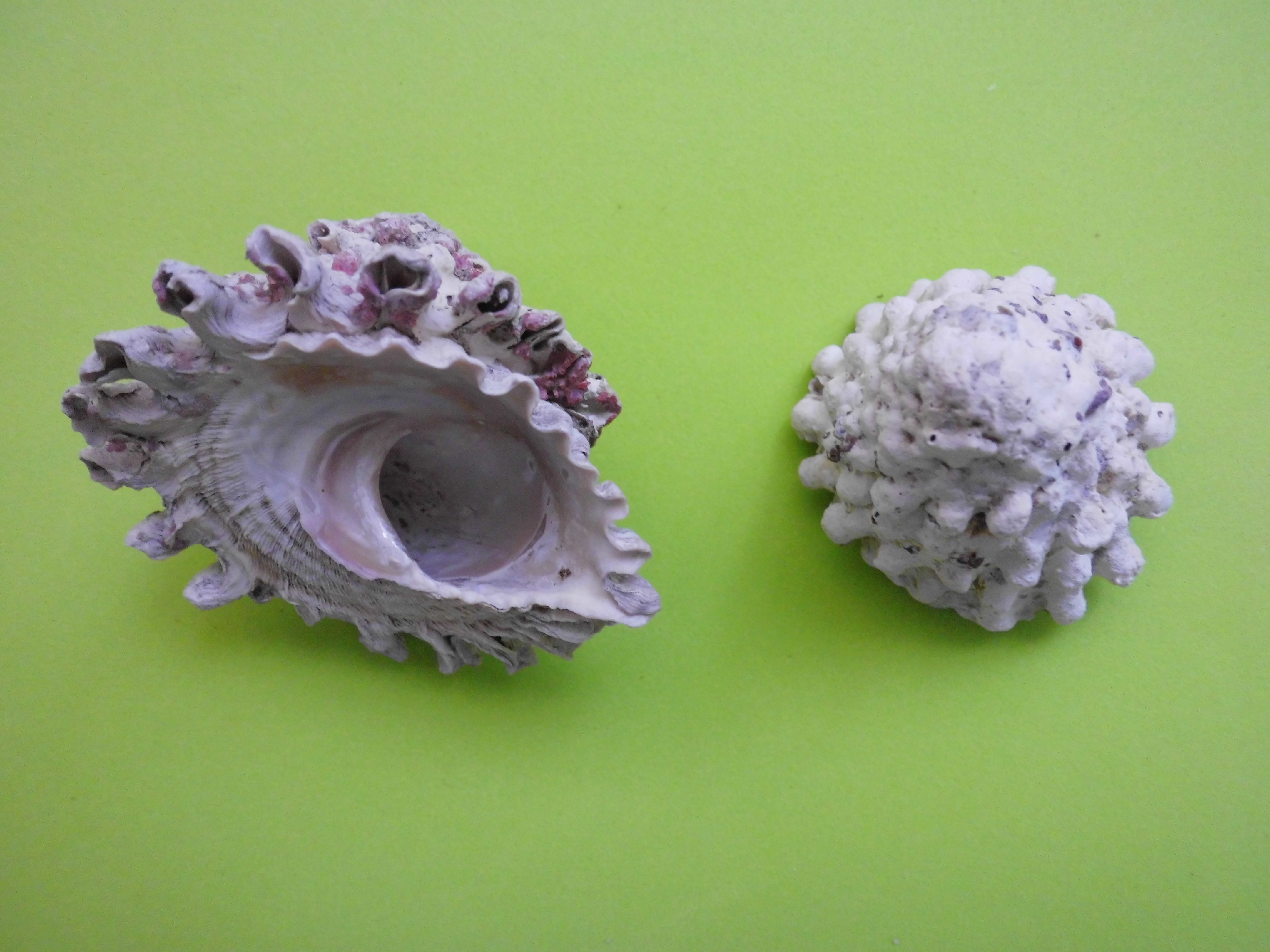 These two shells are incorrectly identified. This is not Lithopoma caelata but Lithopoma tectum (Lightfoot, 1786).